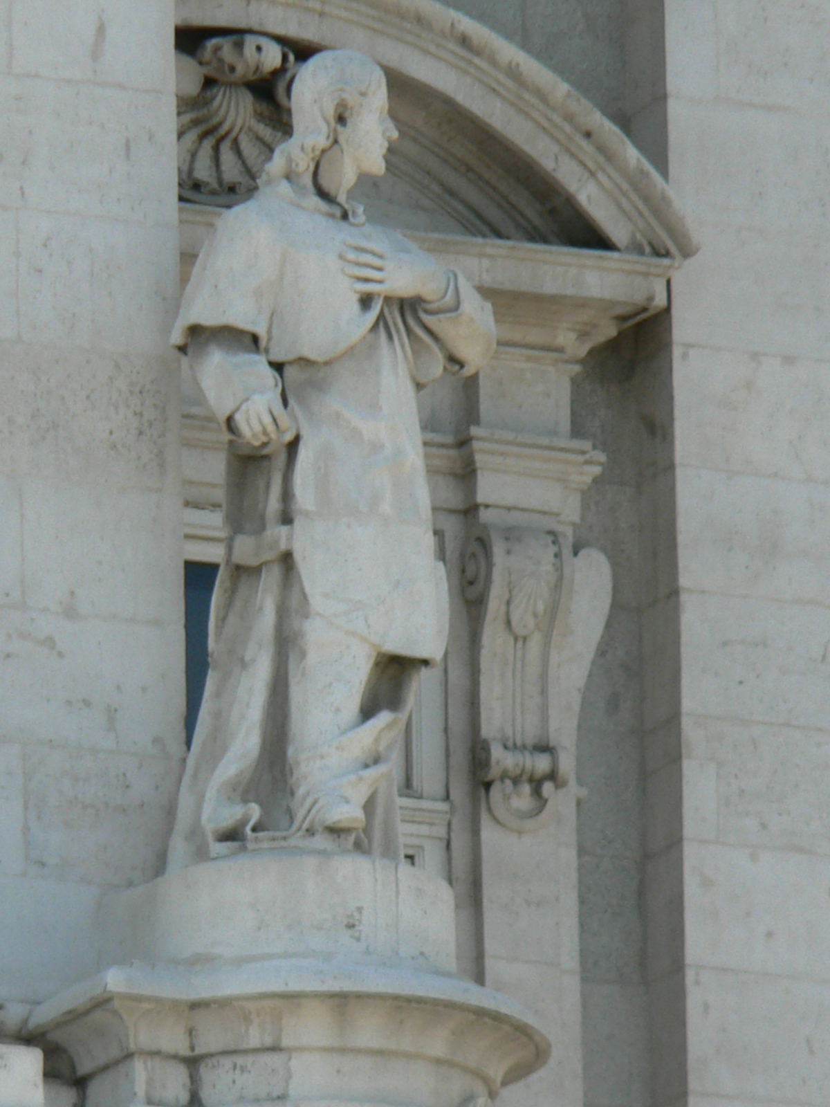 Statue of Bermudo I, the Deacon, eighth king of Asturias, (788-797). In the North facade of the Main Floor of the Real Palace of Madrid.